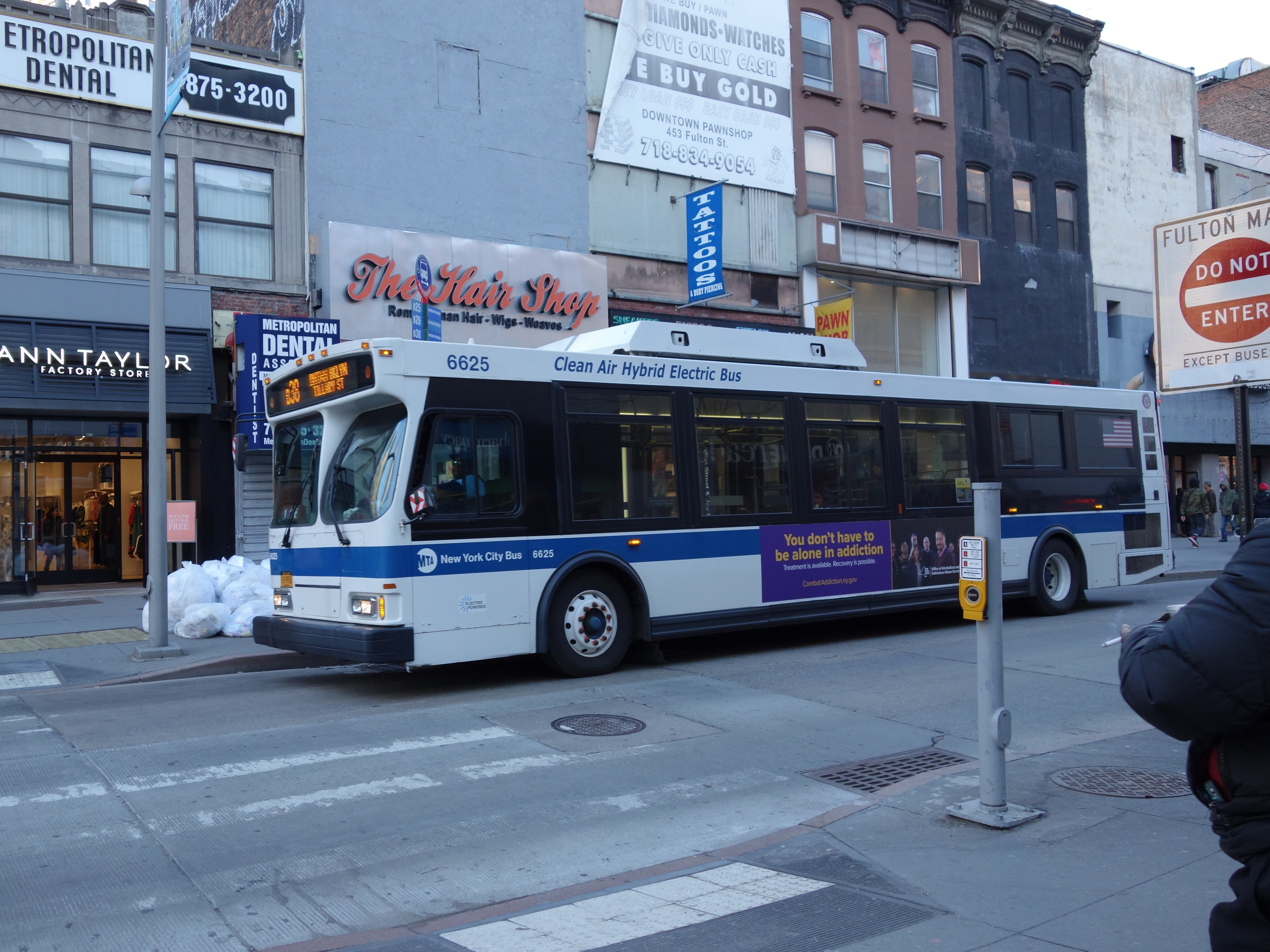 A Downtown Brooklyn-Tillary Street-bound B38 bus at Smith Street and Futon Mall in Downtown Brooklyn.